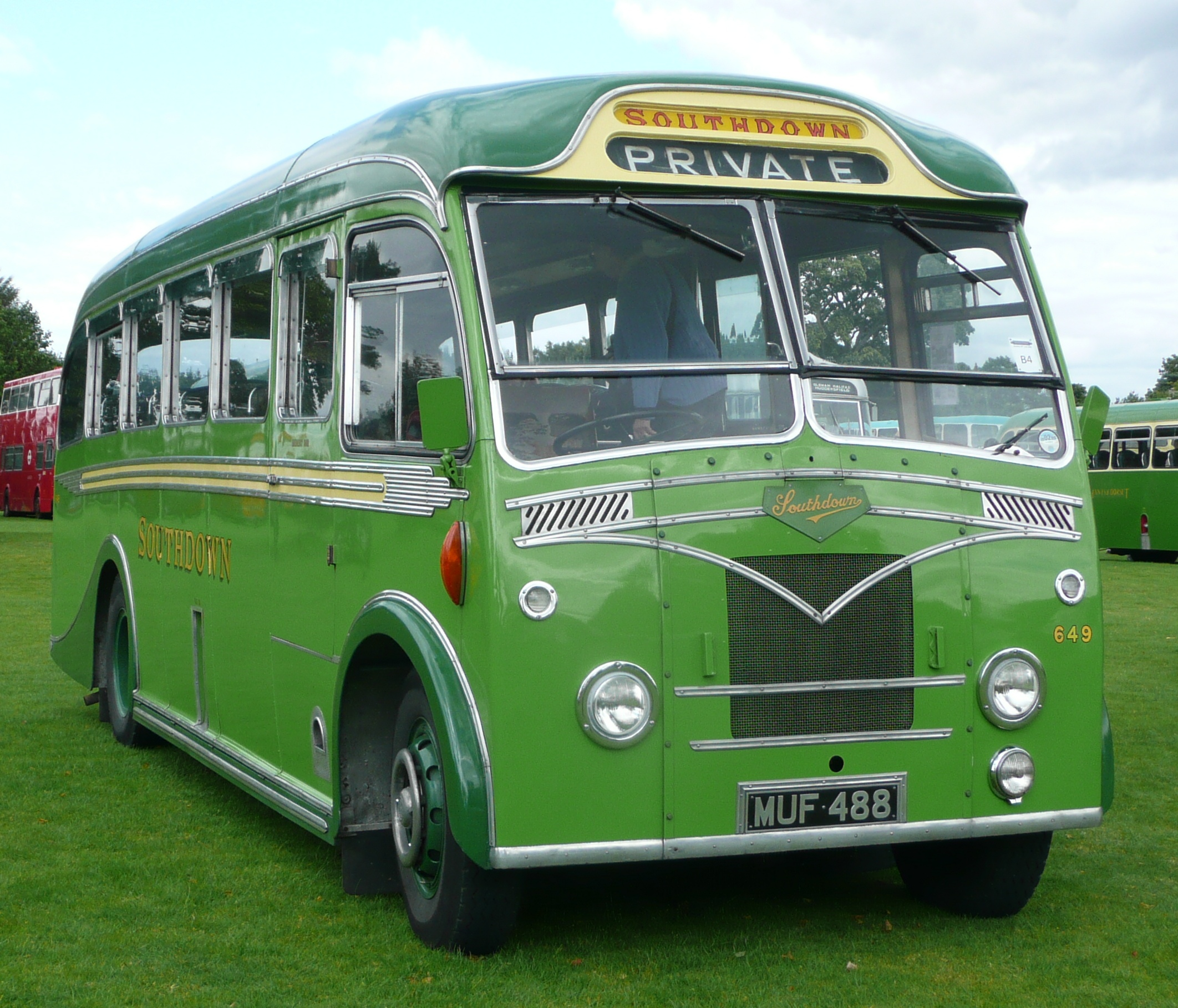 A Leyland Tiger now preserved at the 2008 Alton Bus Rally. It was previously run by Southdown Motor Services.